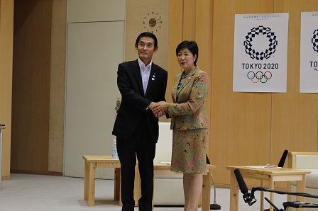 Masahiro Imamura, Minister for Reconstruction, met Yuriko Koike, Governor of Tōkyō Metropolis, at Tōkyō Metropolitan Government Building in Shinjuku Ward, Tōkyō Metropolis on September 8, 2016.